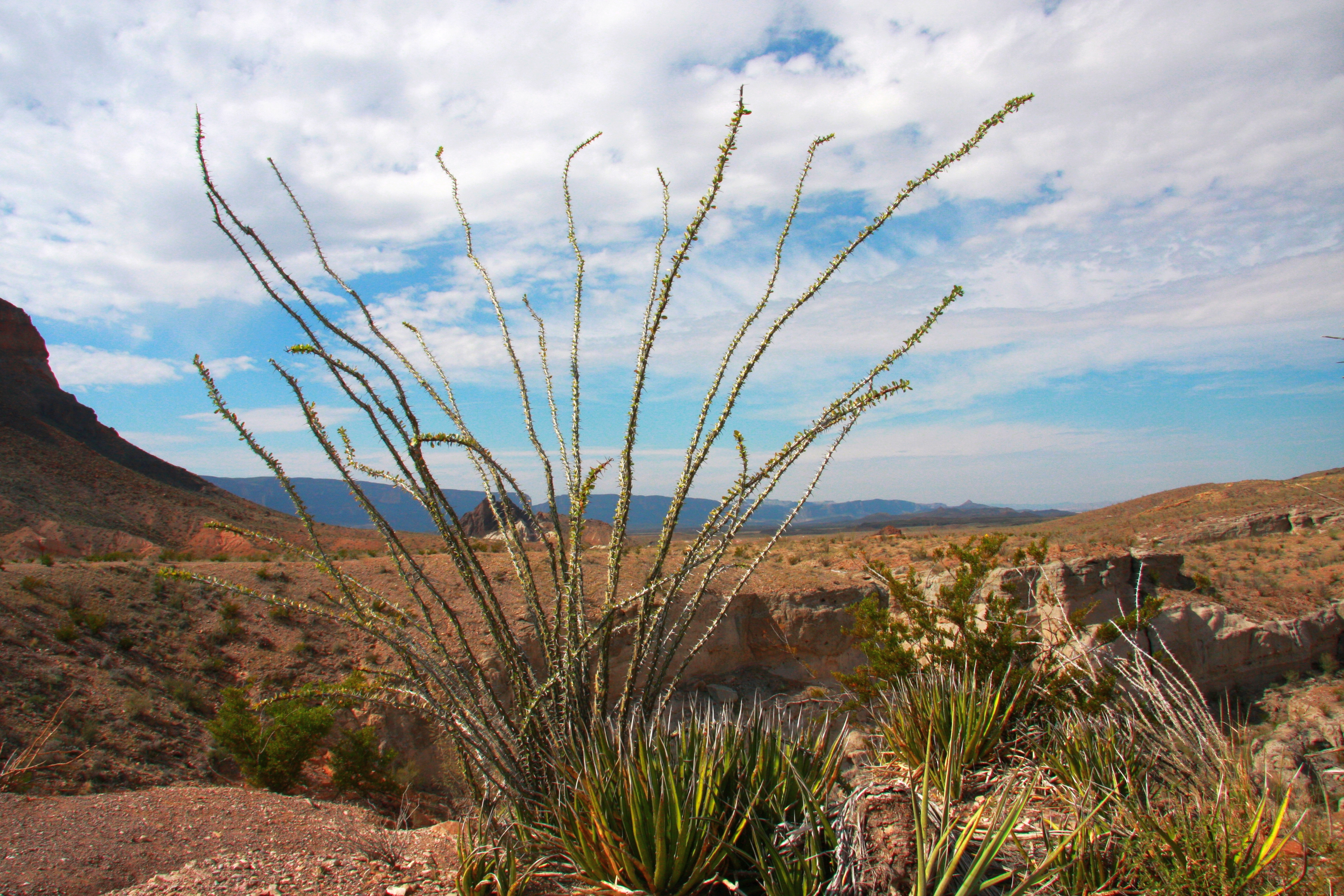 Fouquieria splendens (ocotillo) from the road to Santa Elena Canyon in Big Bend National Park, Texas